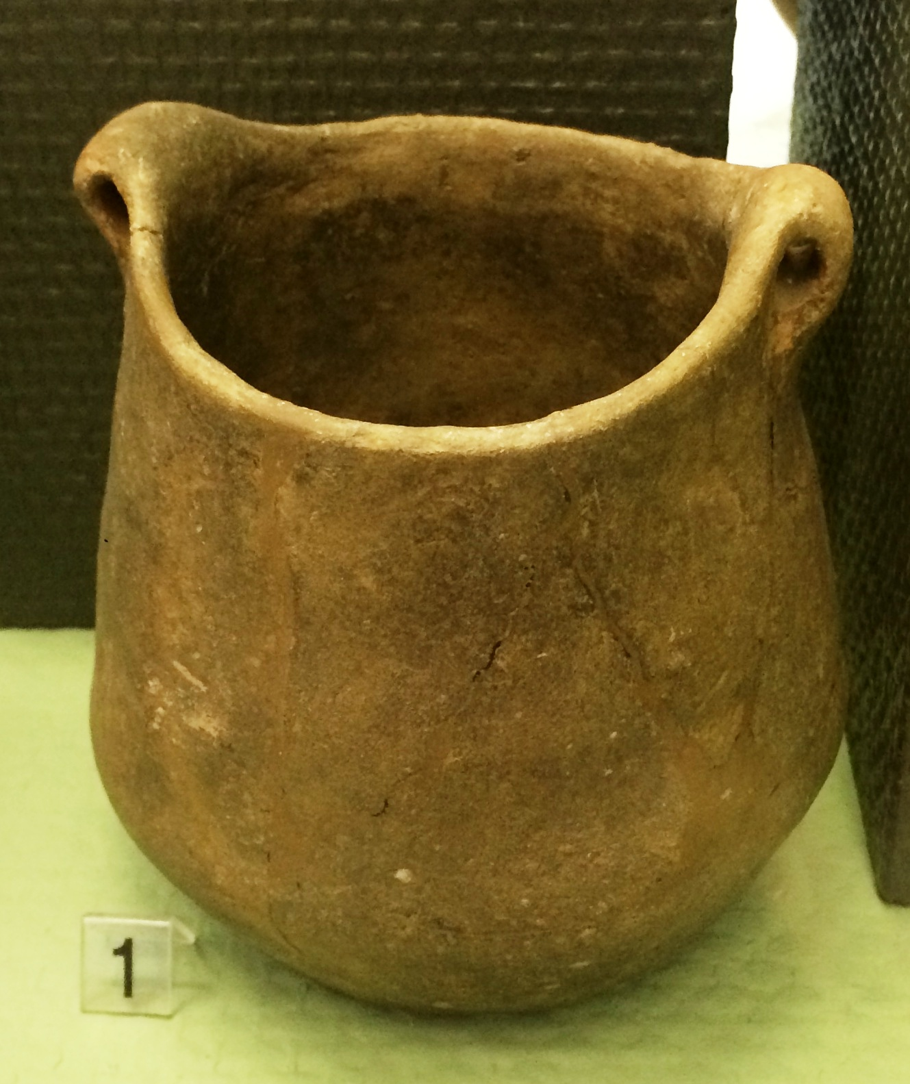 Ceramics from the Ludanice Culture, an early Copper-Age style in Hungary. Find from between 4000 BC and 3500 BC, near Budapest.